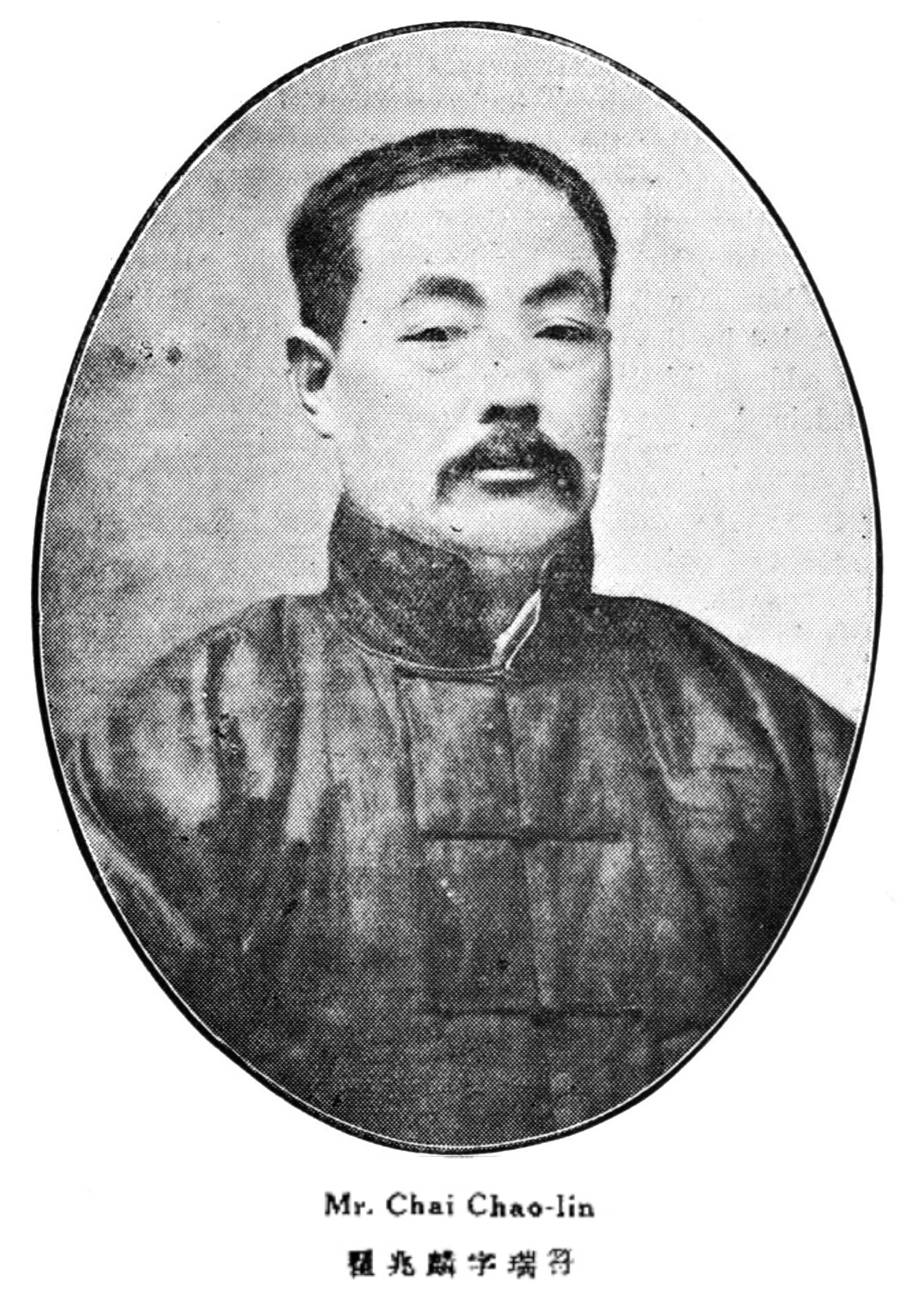 Zhai Zhaolin (1870-？)